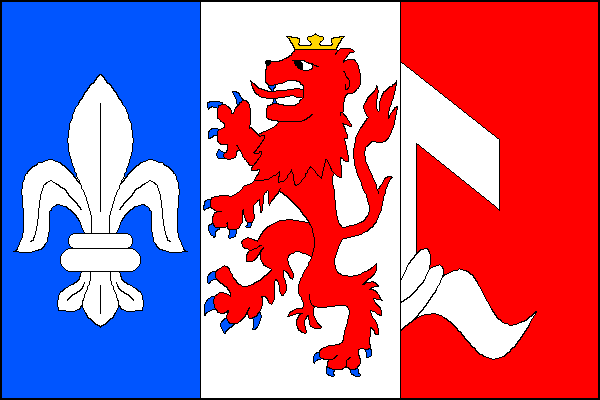 Municipal flag of Čechy pod Kosířem village, Prostějov District, Czech Republic.